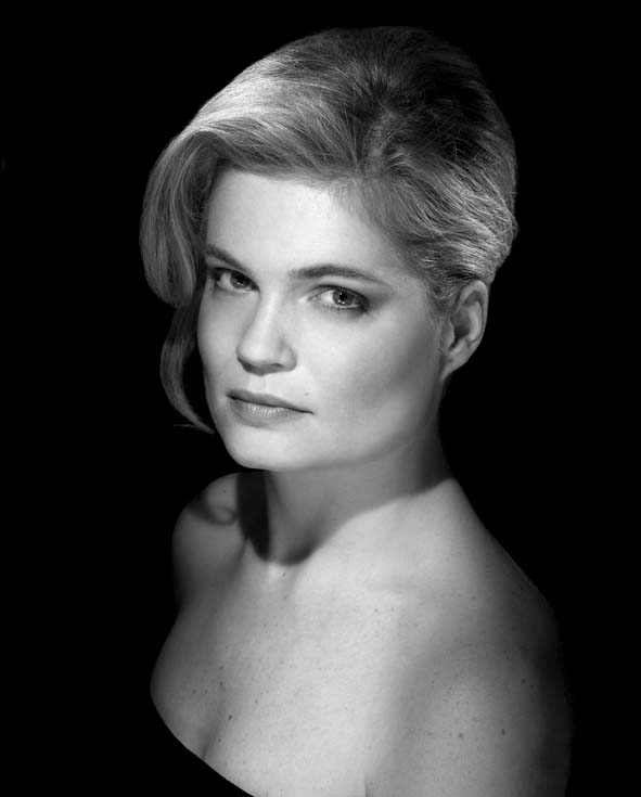 Sarah Biasini photographed by Studio Harcourt Paris